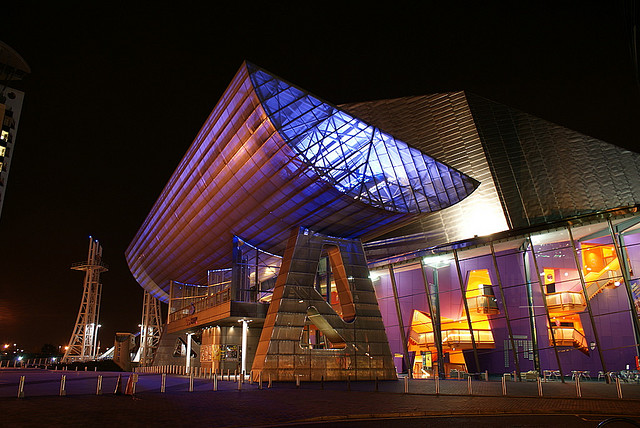 Salford Quays, Lowry theatre next to the new BBC media city, in Greater Manchester, England.